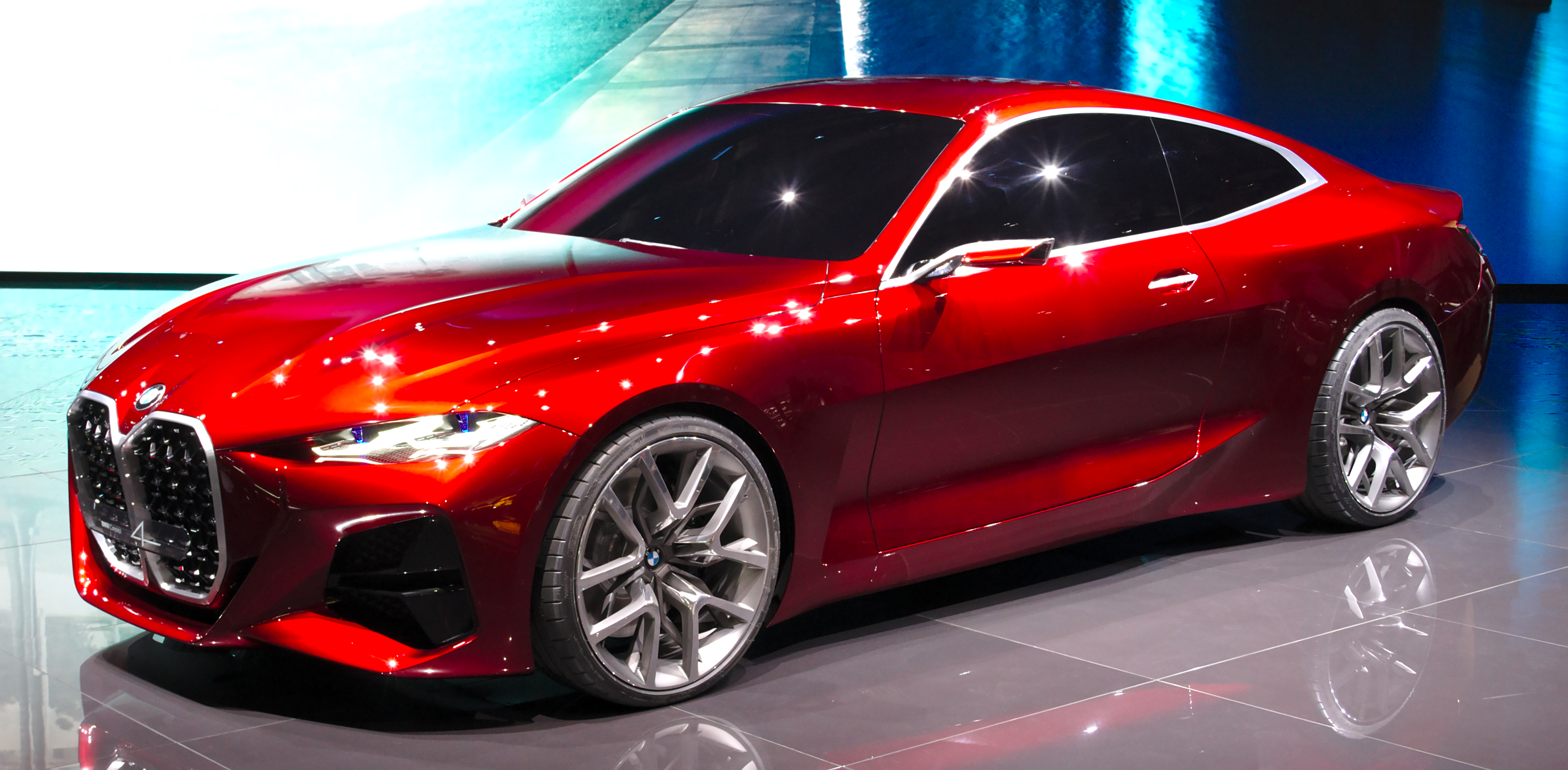 BMW_Concept_4 at IAA 2019